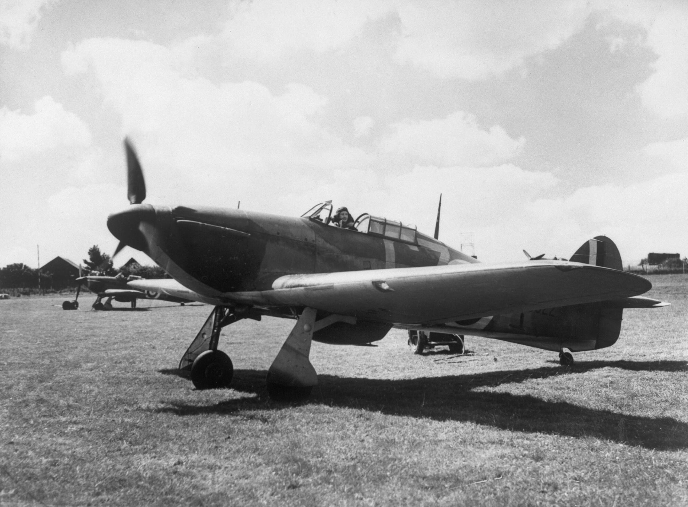 The Battle of Britain Hawker Hurricane Mk I P3522 of No. 32 Squadron, flown by Pilot Officer Rupert Smythe, taxying at Hawkinge, 29 July 1940.